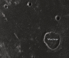 Maclear lunar crater as seen from Earth with satellite craters labeled